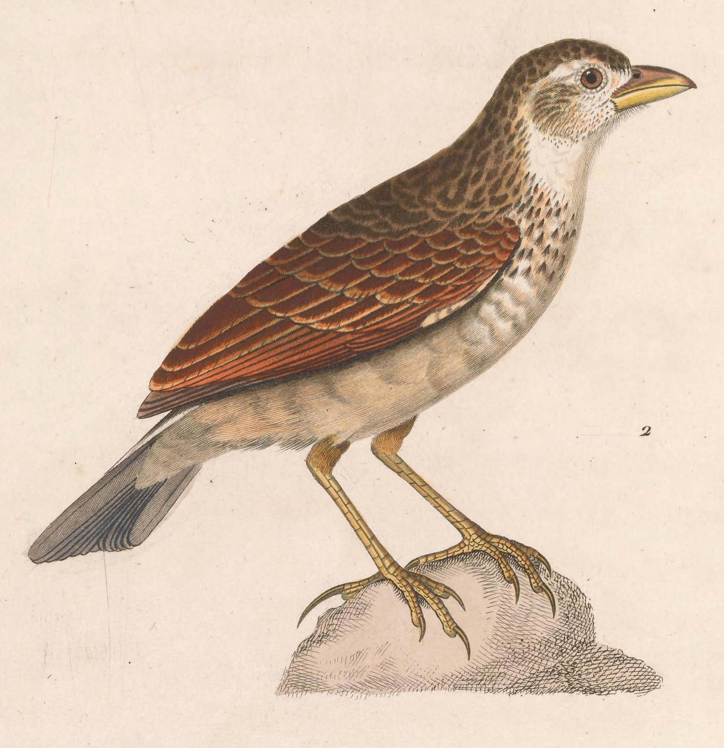 « Alauda mirafra » = Mirafra javanica javanica (Subspecies of Horsfield's Bush Lark) - male